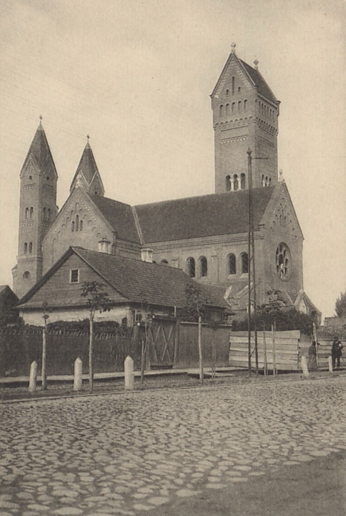 Church of Saints Simon and Helena (Minsk, Belarus) - postcard